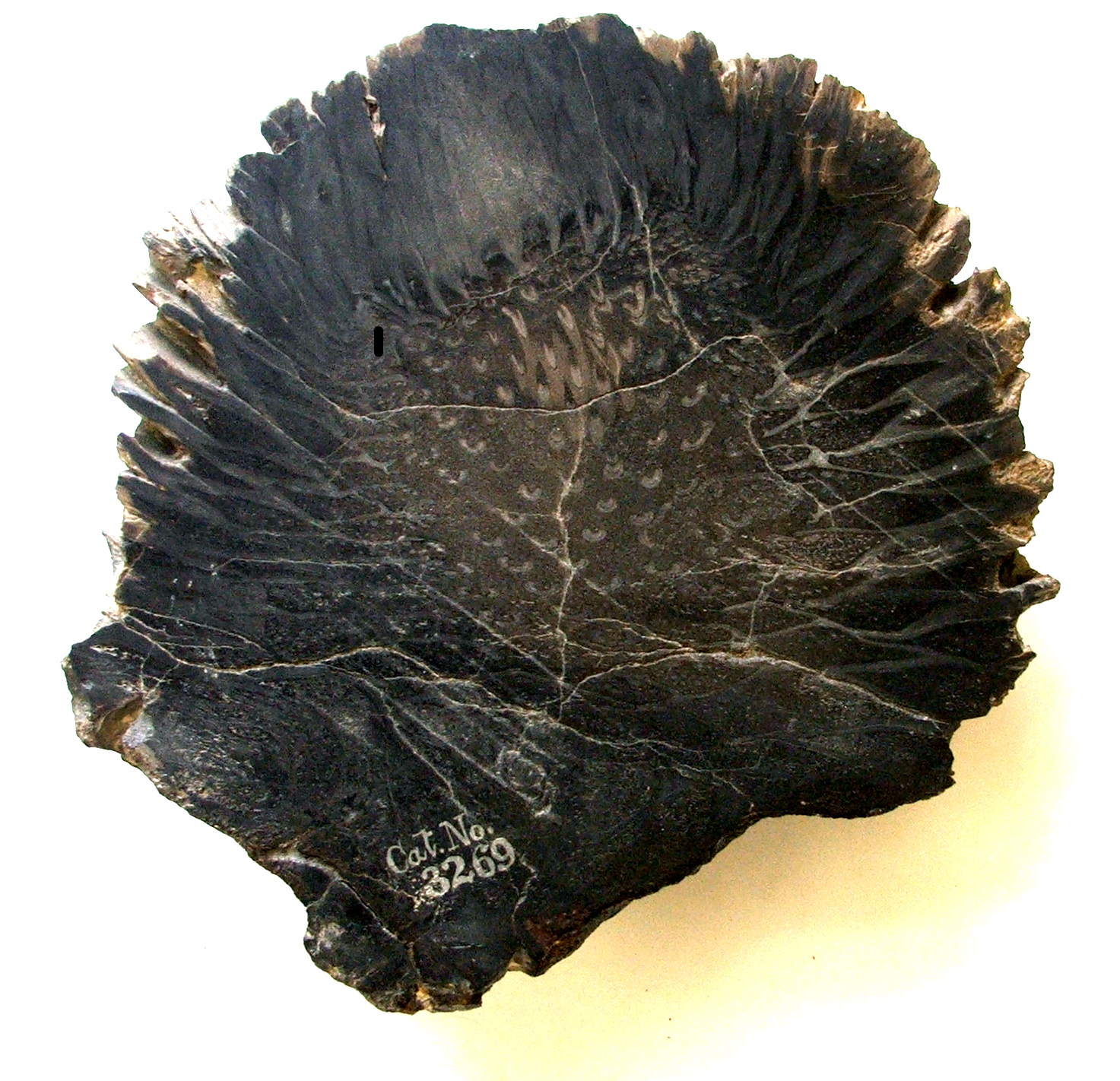 Bennettiales from the Sedgwick Museum's collection. Note the "cone" in the top-right of the image, and leaf traces. Width is ~15cm.